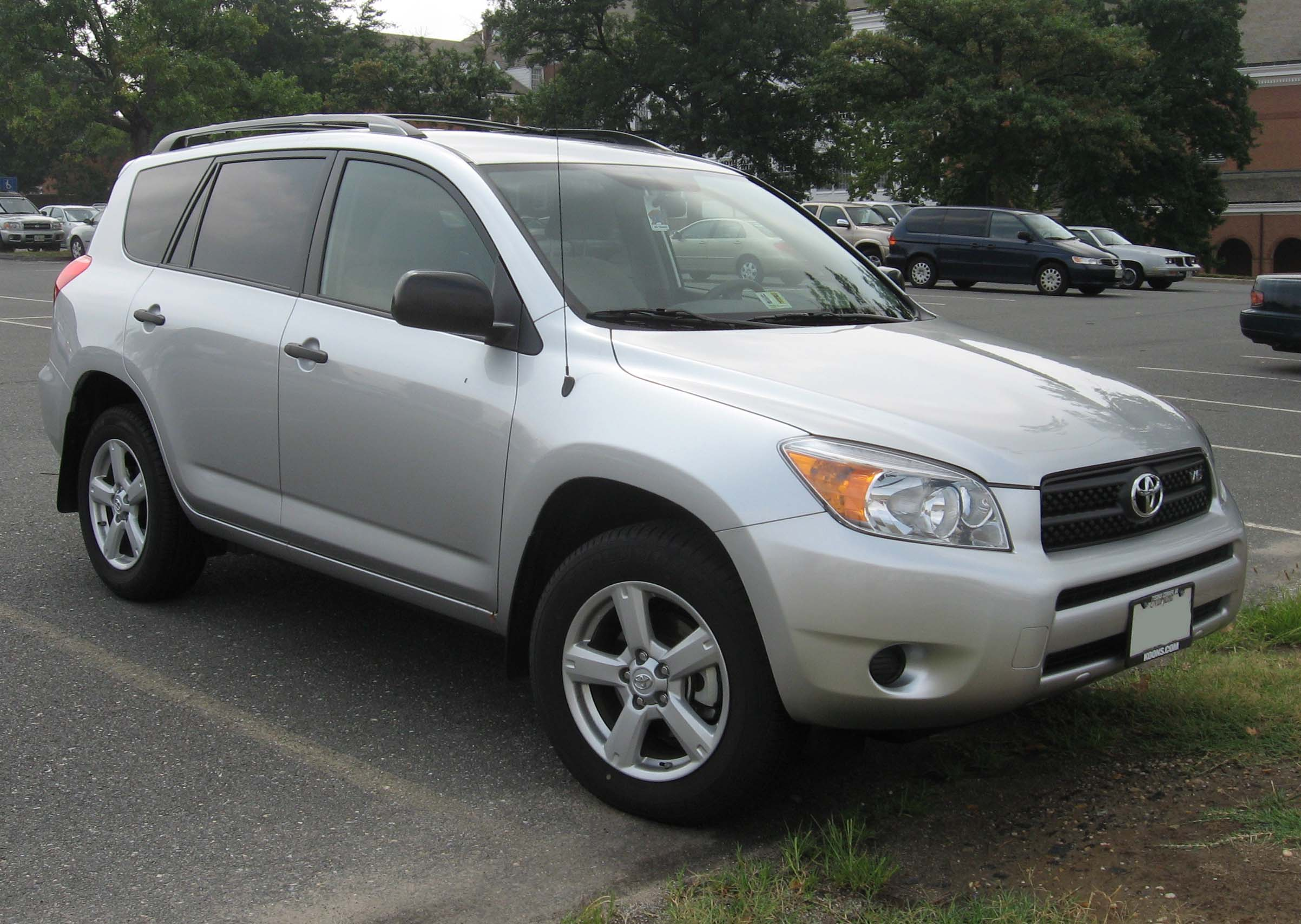 2006-2007 Toyota RAV4 photographed in USA.